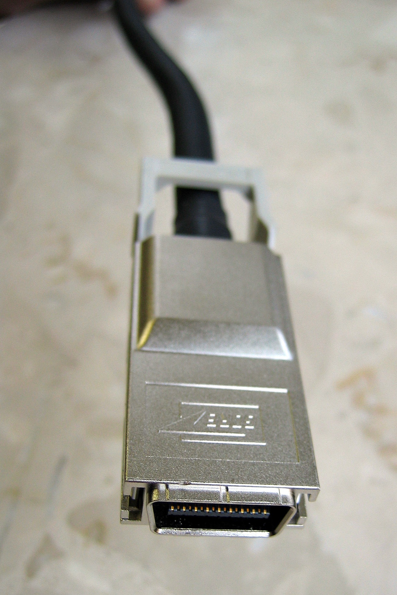 InfiniBand-CX4-Cable